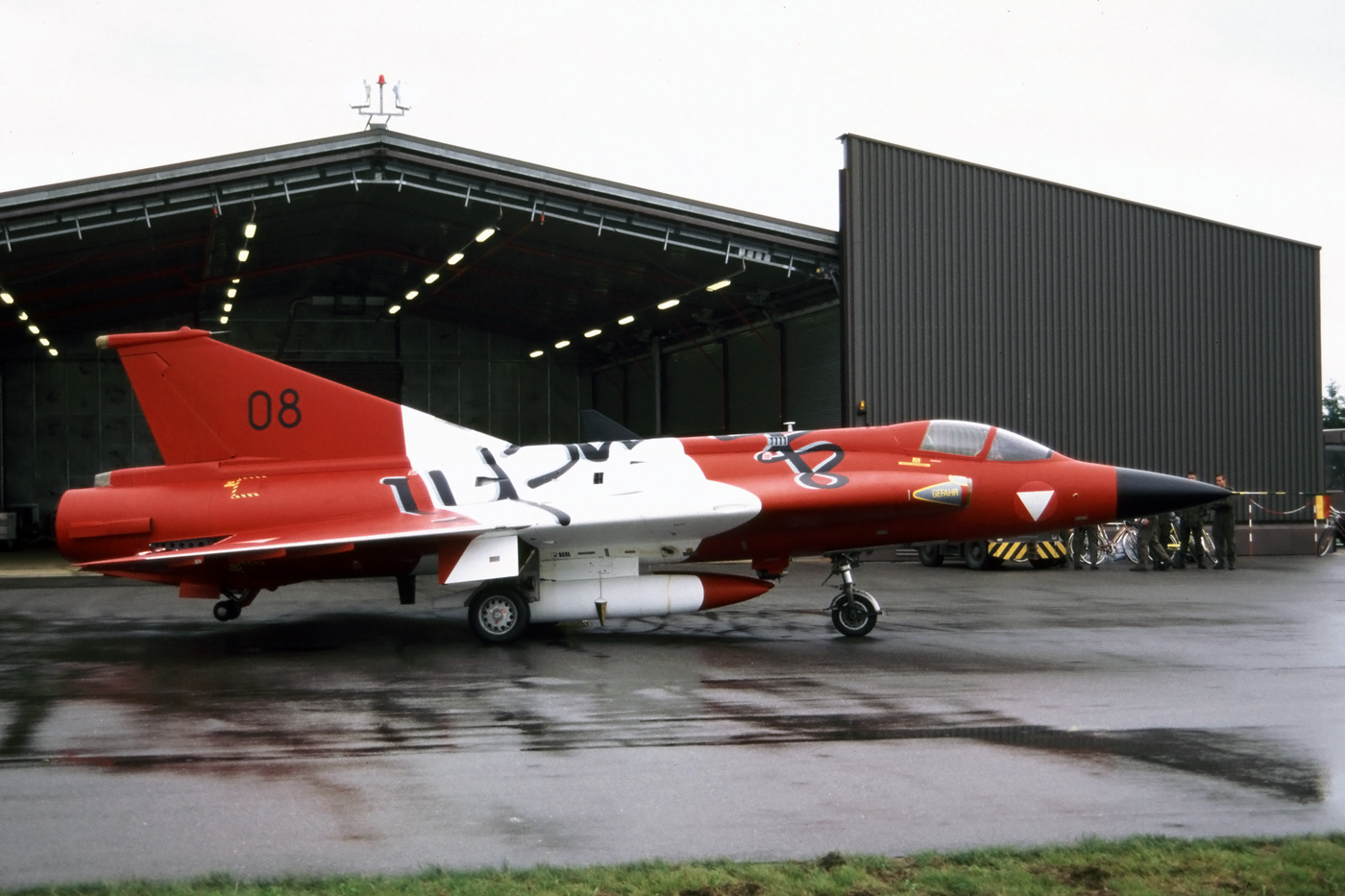 Zeltweg (Austria), 19 June 1997. 'Ostarrichi 996' is written on this Draken. Ostarrichi is the old 'High German' name of Österreich and 996 is the year that this name was mentioned for the first time in a document. 08 is preserved now in the museum on the base, still in these colours and markings